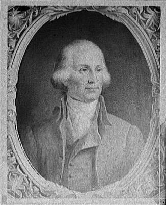 Samuel Osgood, first Postmaster General of the U.S. Photograph of a mural by Constantino Brumidi in the rotunda, United States Capitol, Washington, D.C.